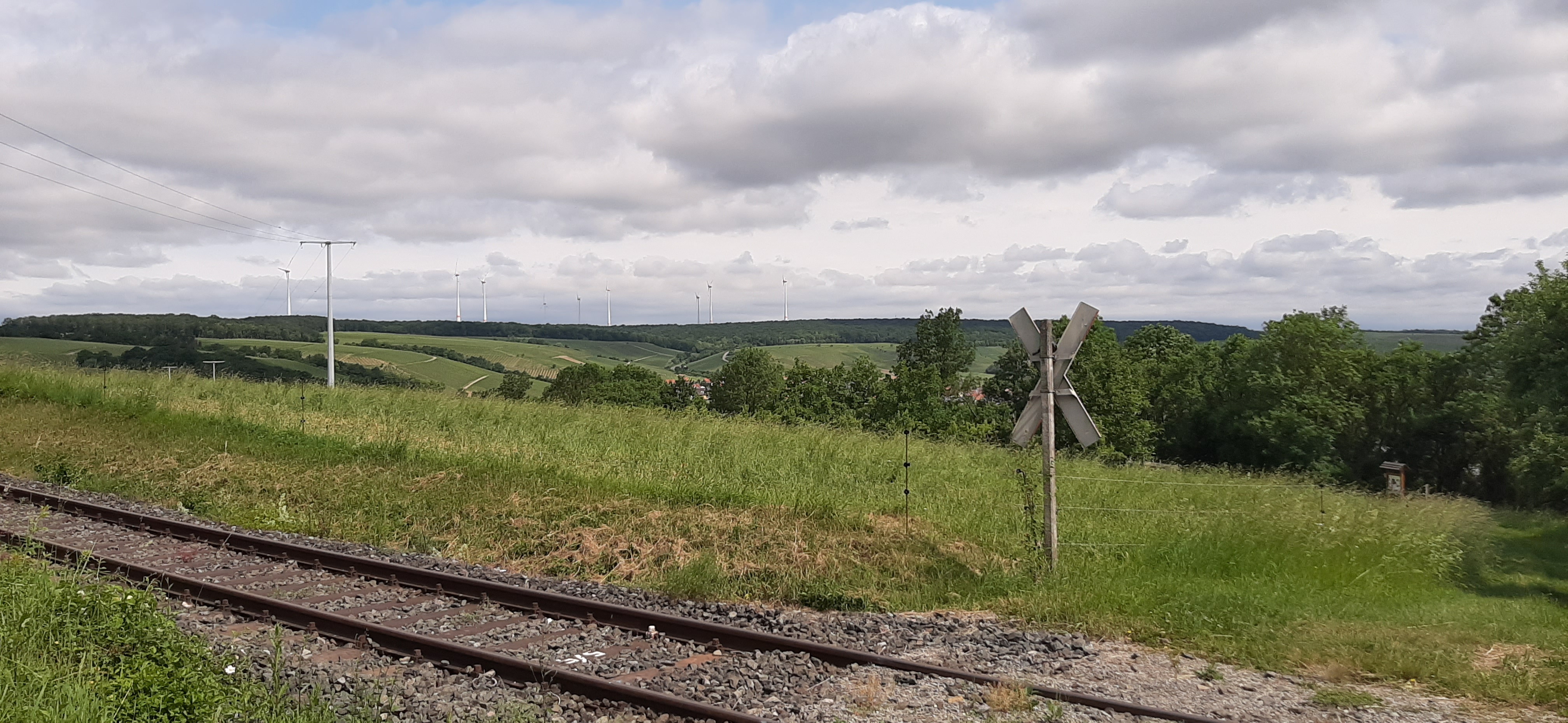 Dipbach, Wind farm, view from the east